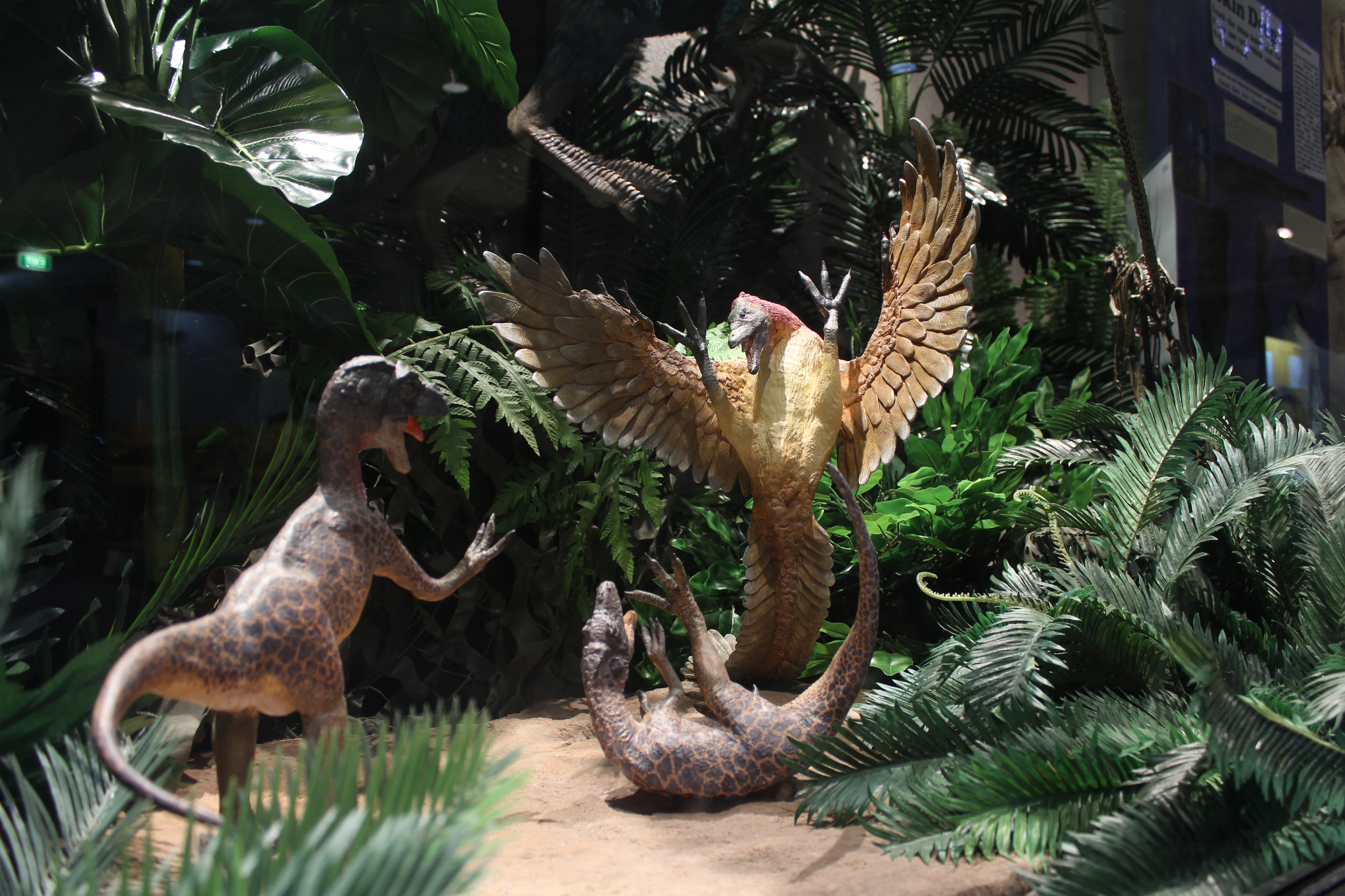 Archaeopteryx on the hunt for theropod hatchlings